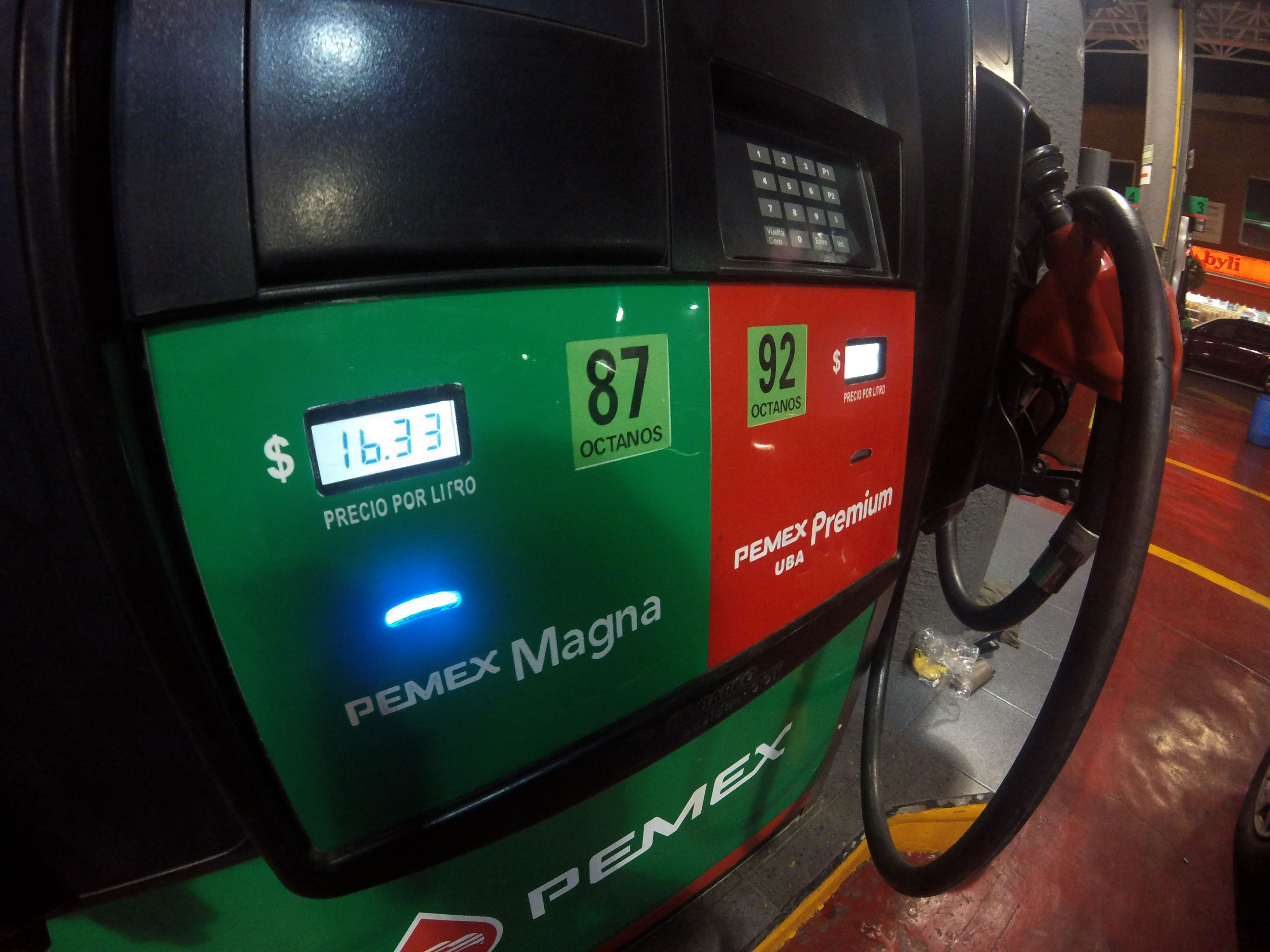 Pemex Gas Pump in Mexico City showing the increase in the price of petrol in January 2017.